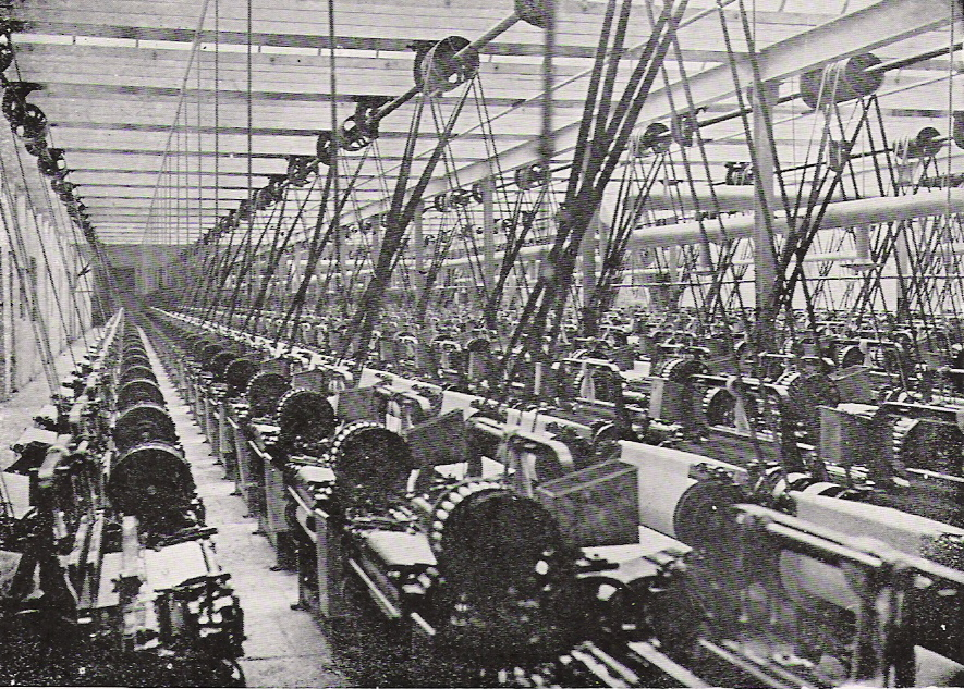 Steam powered weaving shed